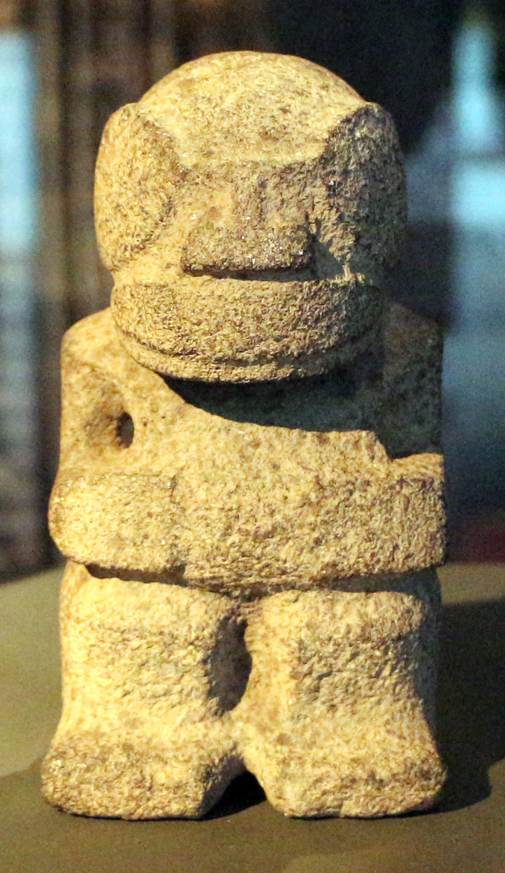 Oceanic art in the Musée du quai Branly